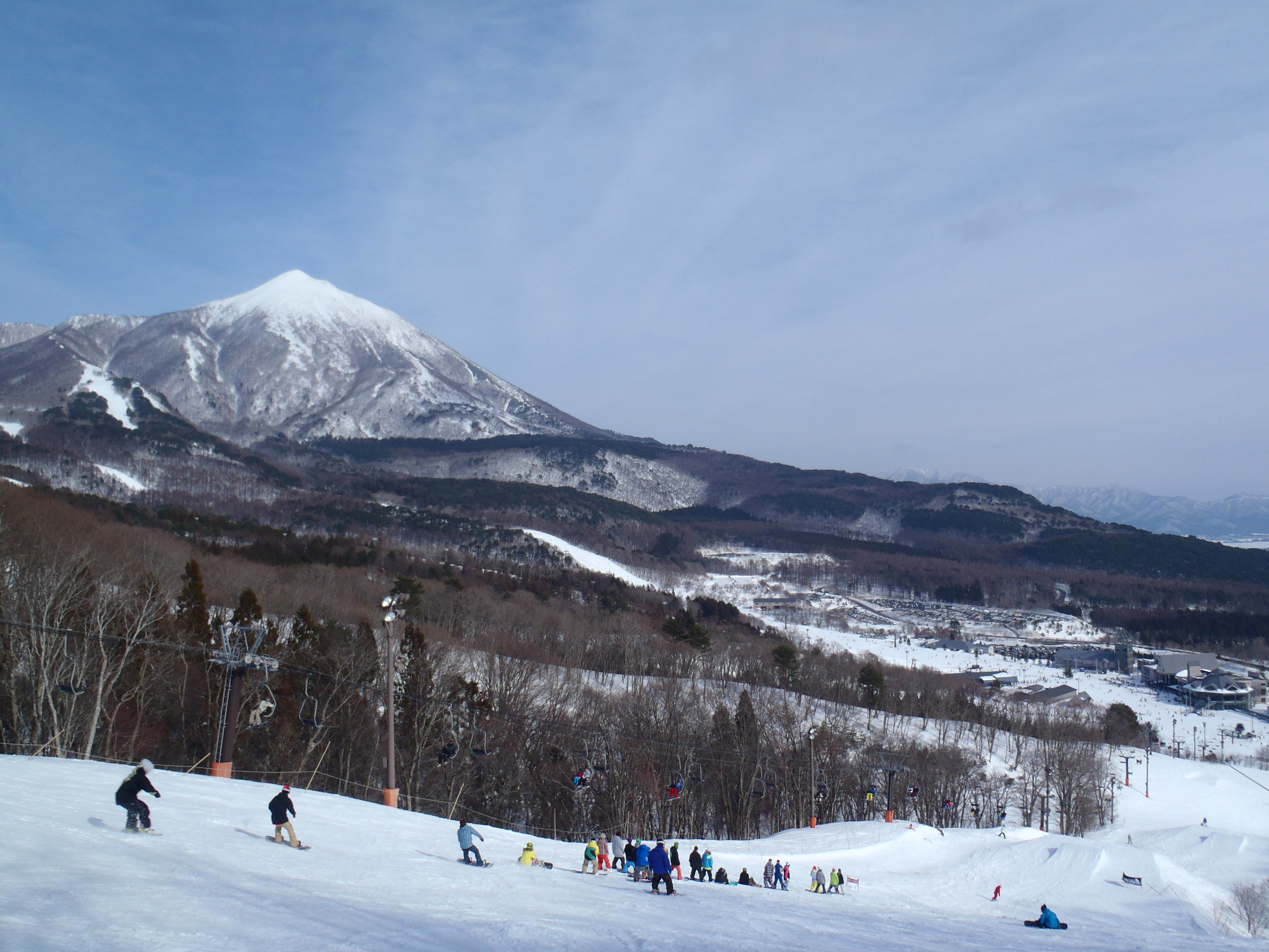 ALTS Bandai Snow Resort.